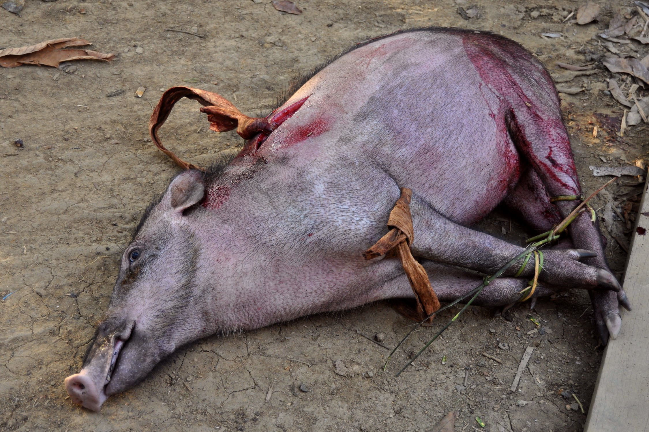 Bornean bearded pig (Sus barbatus), hunted by Dayak Pawan people in Ketapang Regency, West Kalimantan.